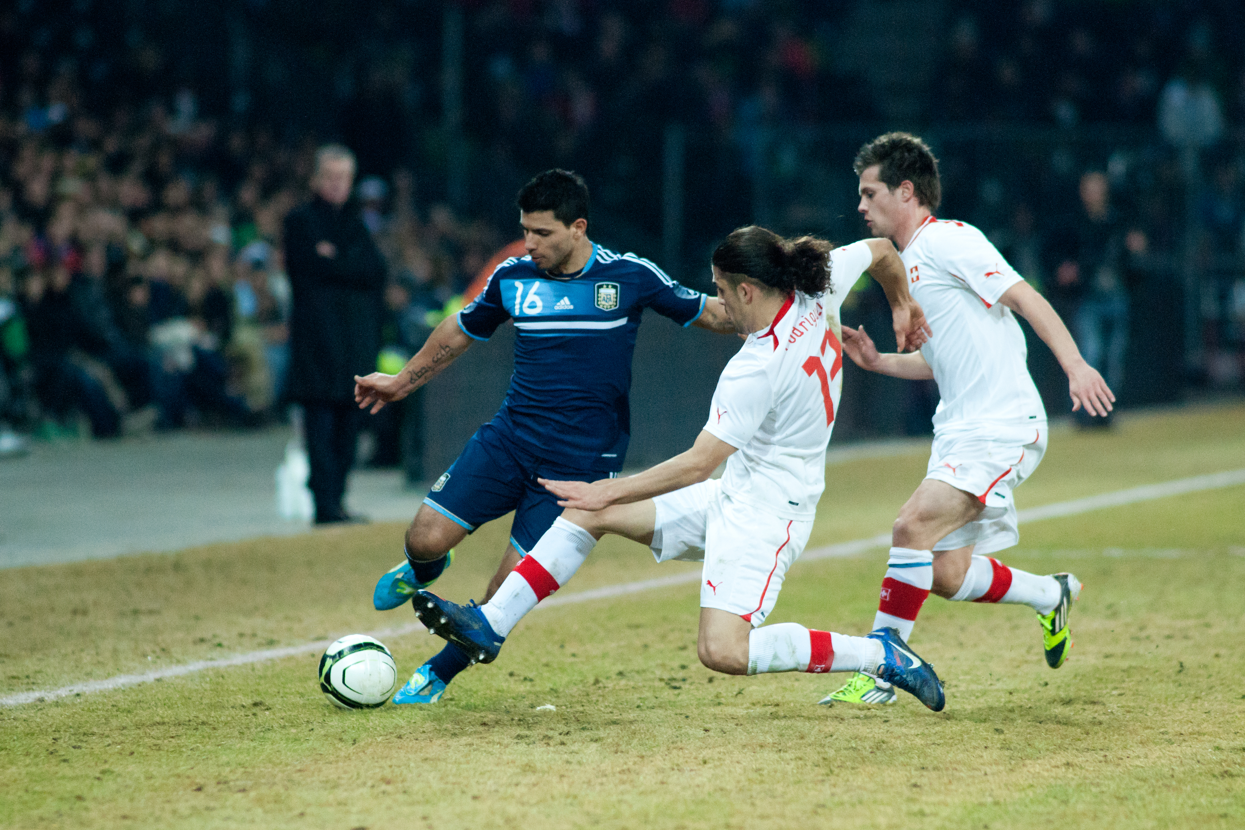 The making of this document was supported by Wikimedia CH. (Submit your project!) For all the files concerned, please see the category Supported by Wikimedia CH. Switzerland vs. Argentina, 29th February 2012